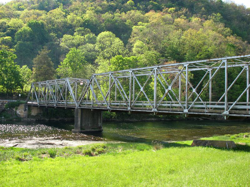 Old iron bridge over the Watauga River in Siam, Tennessee. River is shown at non-generating water level.